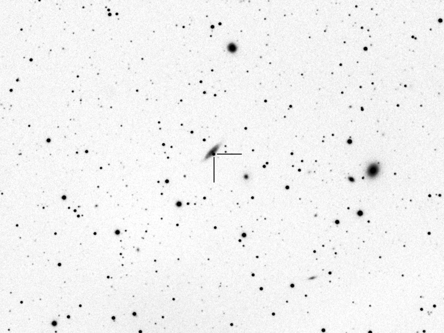 Supernova SN2011by in NGC3972